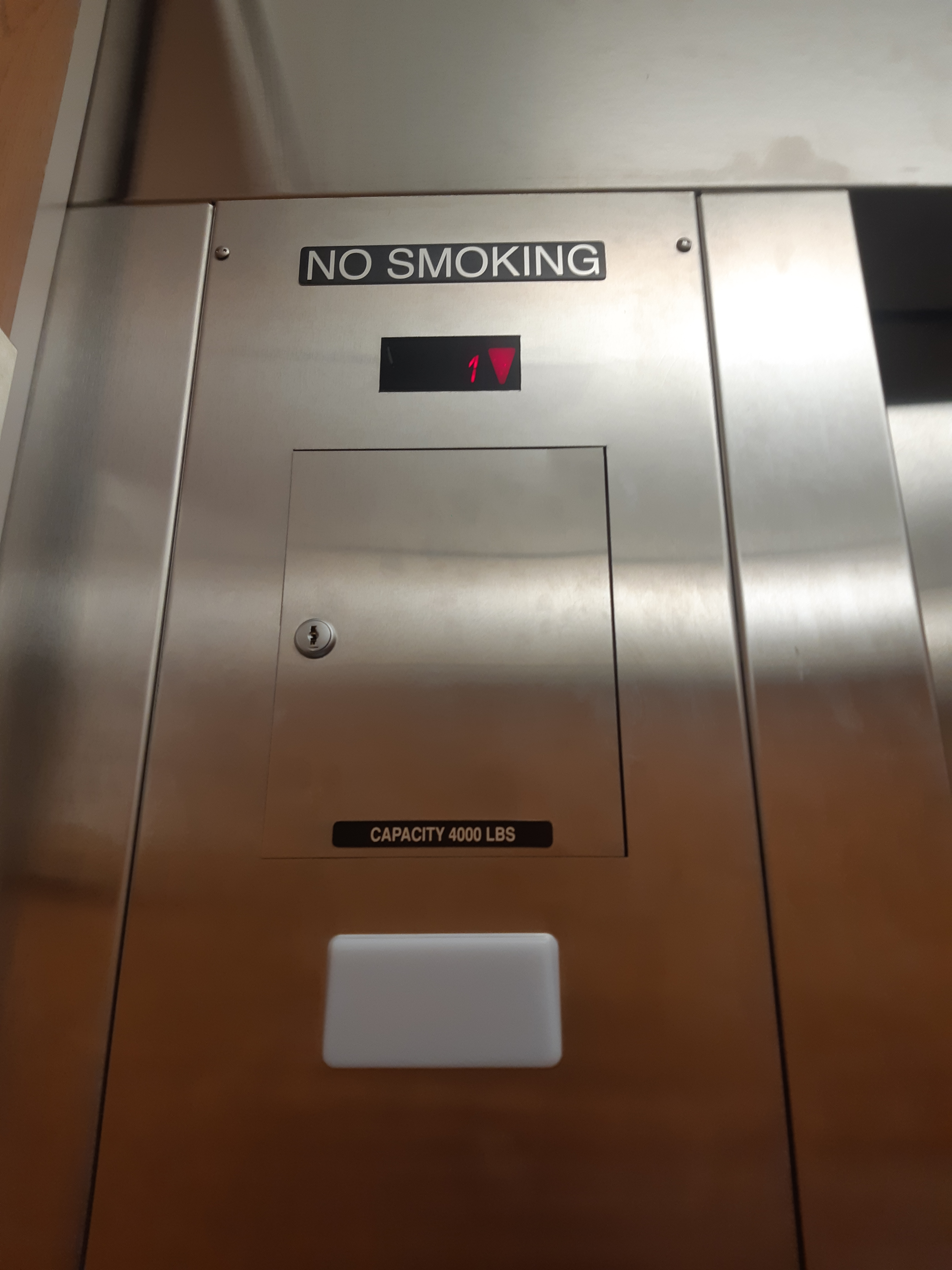 At Ashley HomeStore Caguas